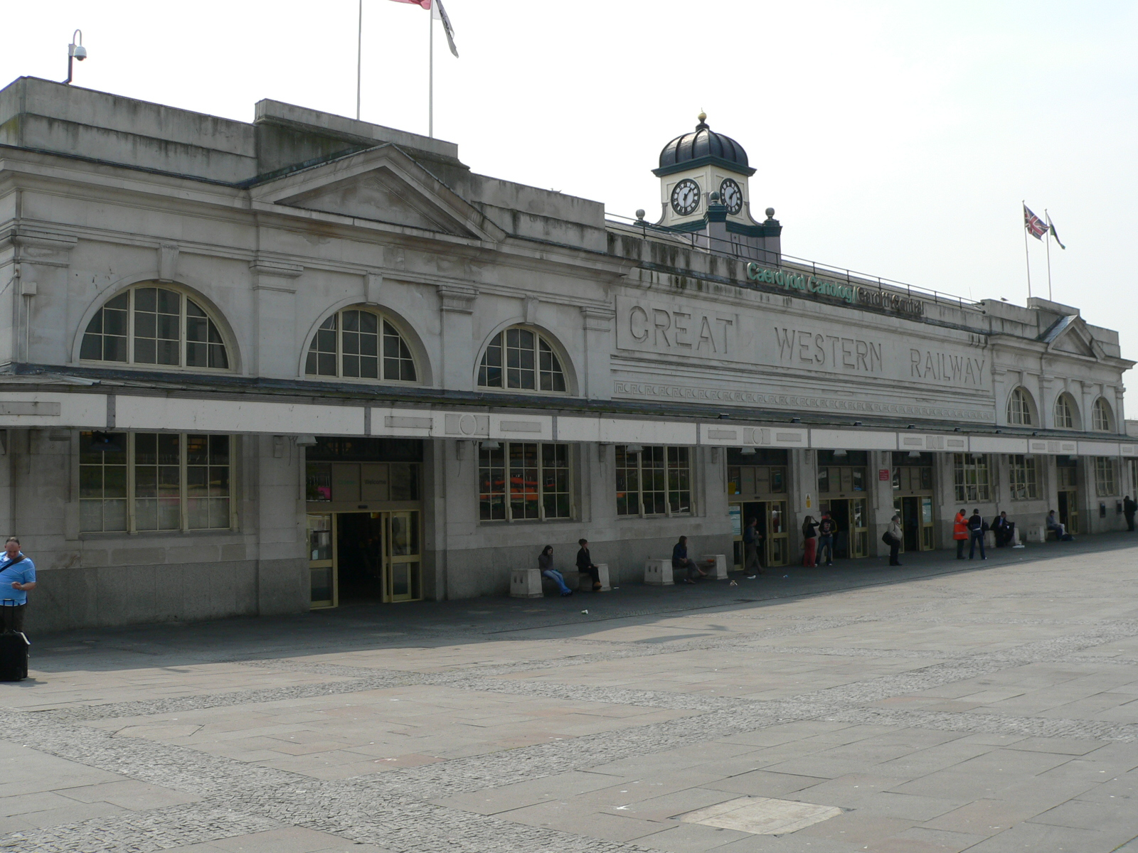 The main front of Cardiff Central railway station, as seen from Central Square. The large lettering on the front of the station leave no doubt as to the original constructor of the station - the Great Western Railway.